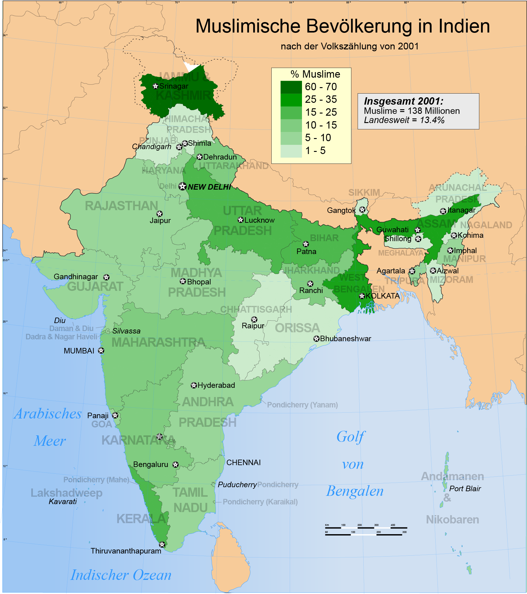 The map shows the % of people in each state and union territory who declared themselves and their dependents to be a Muslim during the 2001 census of India. The Islamic distribution map varies within each district. The map shows state-wide average as reported by the Census. The table used to make this map does not provide further distribution of Sunni, Shia, Sufi, Ahmadiyya and other sects of Islam. The disputed national borders SVG code used to create this map is a derivative work of File:India literacy rate map en.svg available on wikimedia commons.